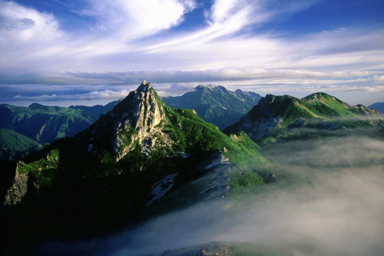 Eboshidake_from_Niseeboshidake 1997-8-14